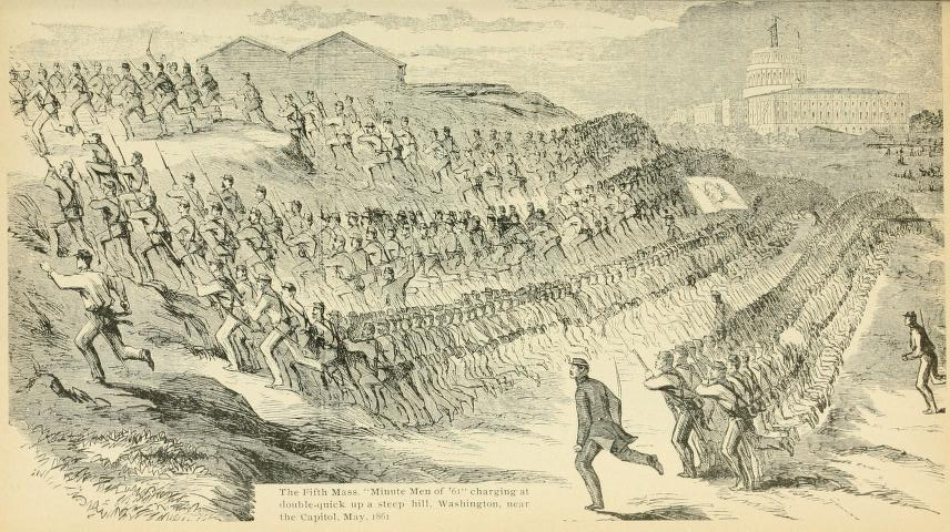 The Fifth Regiment Massachusetts Volunteer Infantry charges up a hill in Washington D.C. during training, May 1861, the U.S. Capitol is shown in the background.